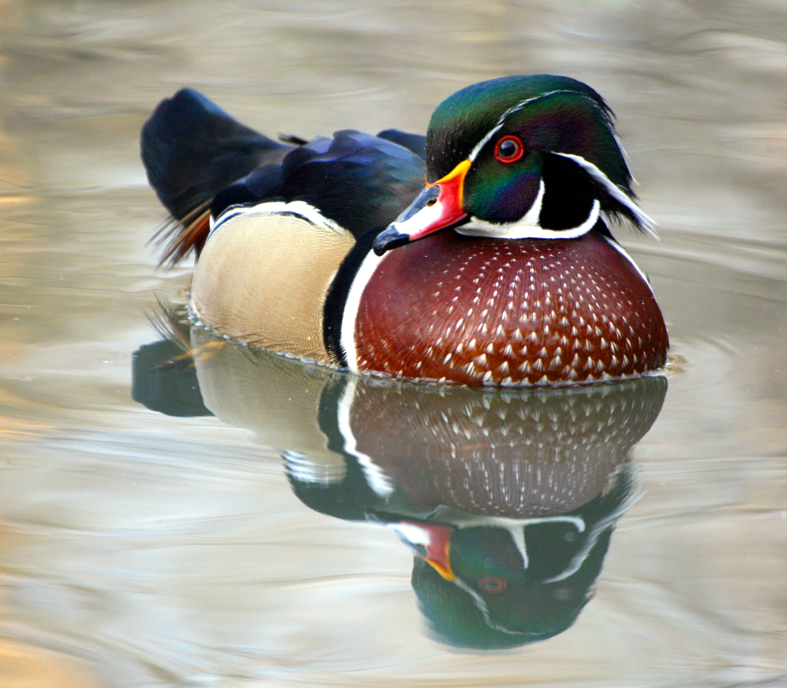 Wood duck (Aix sponsa)